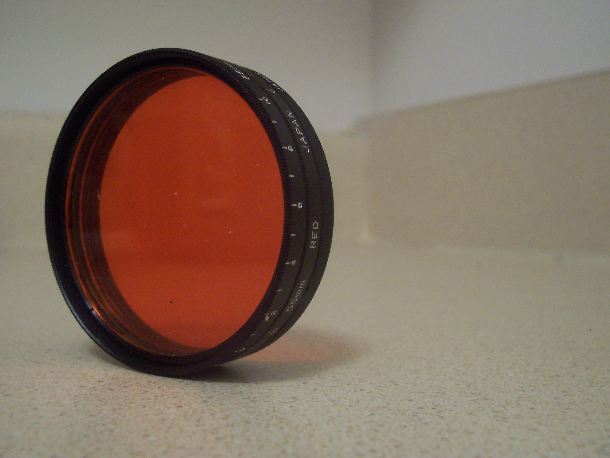 Color filters from a Canon AE-1 camera.